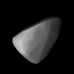 3D convex shape model of 1554 Yugoslavia, computed using light curve inversion techniques. J. Hanuš, J. Ďurech, M. Brož, B. D. Warner (June 2011). "A study of asteroid pole-latitude distribution based on an extended set of shape models derived by the lightcurve inversion method". Astronomy and Astrophysics 530: A134. ISSN 0004-6361. arXiv